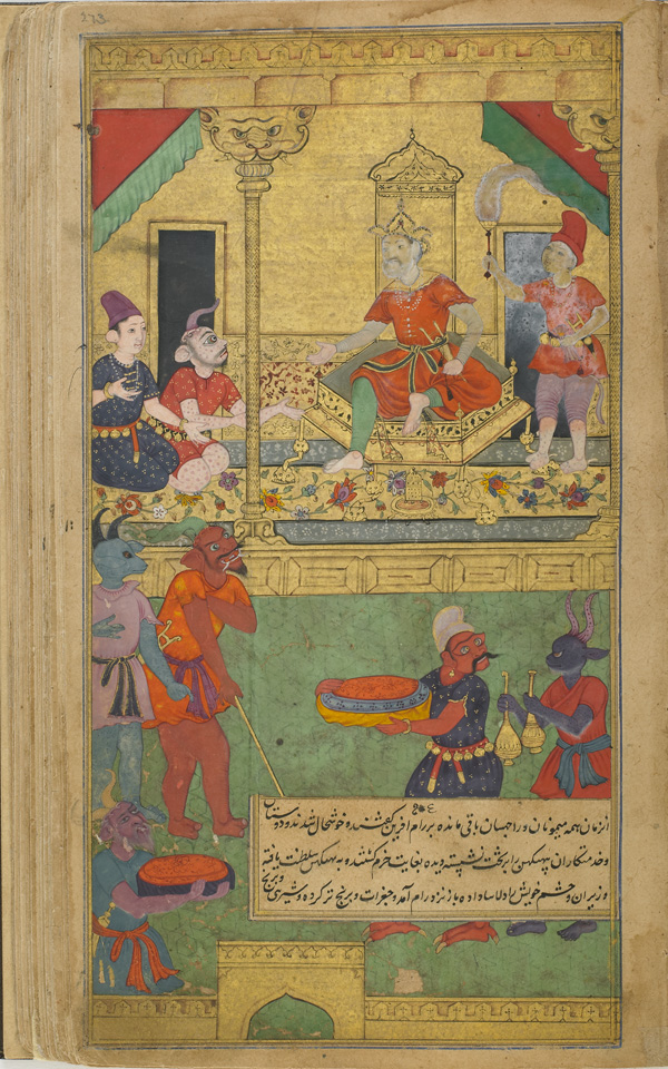 Folio from the Ramayana of Valmiki (The Freer Ramayana), Vol. 2, folio 273; recto: Vibhishana Is Installed as King of Lanka; verso: text 1597-1605 Shyam Sundar , (Indian, Mughal dynasty Opaque watercolor, ink, and gold on paper H: 27.5 W: 15.2 cm Northern India Gift of Charles Lang Freer F1907.271.273